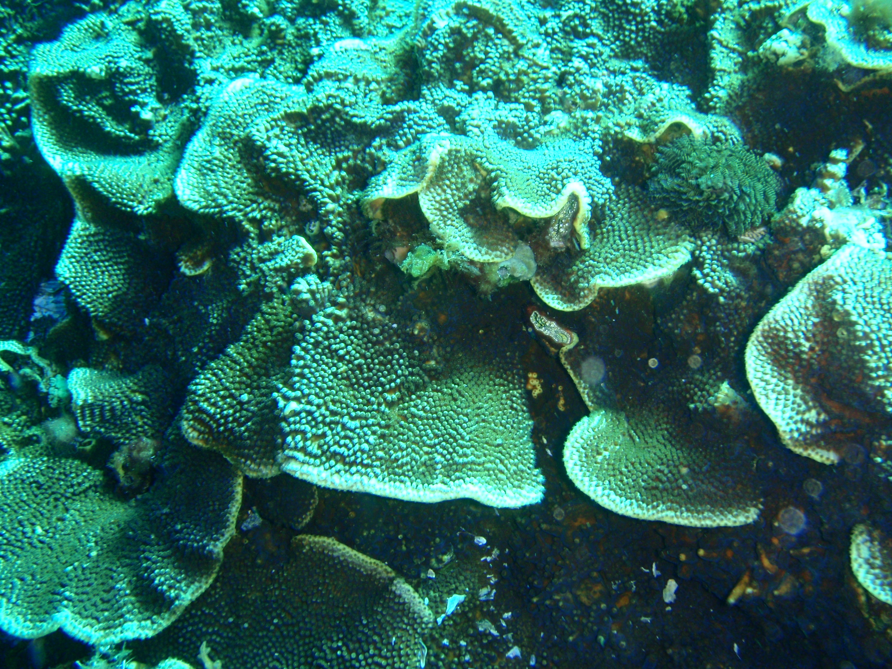 Kidney-shaped coral Tubinaria reniformis at Breaksea Cove in King George Sound, Western Australia